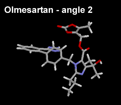 Created by Osni Moreira Filho on March 20, 2006.